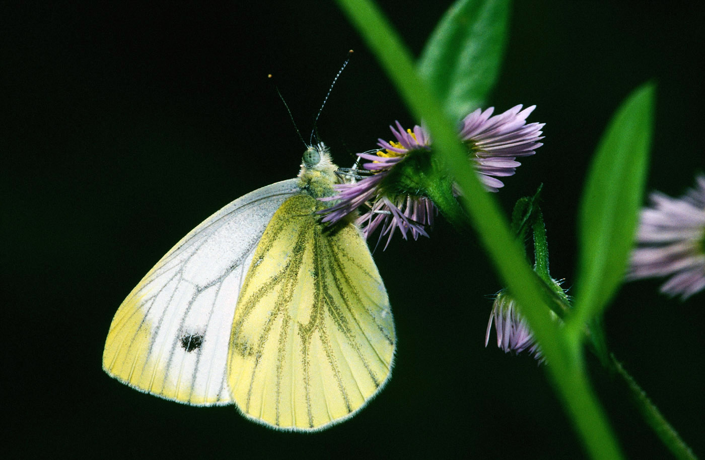 Green-veined White (Piris napi)